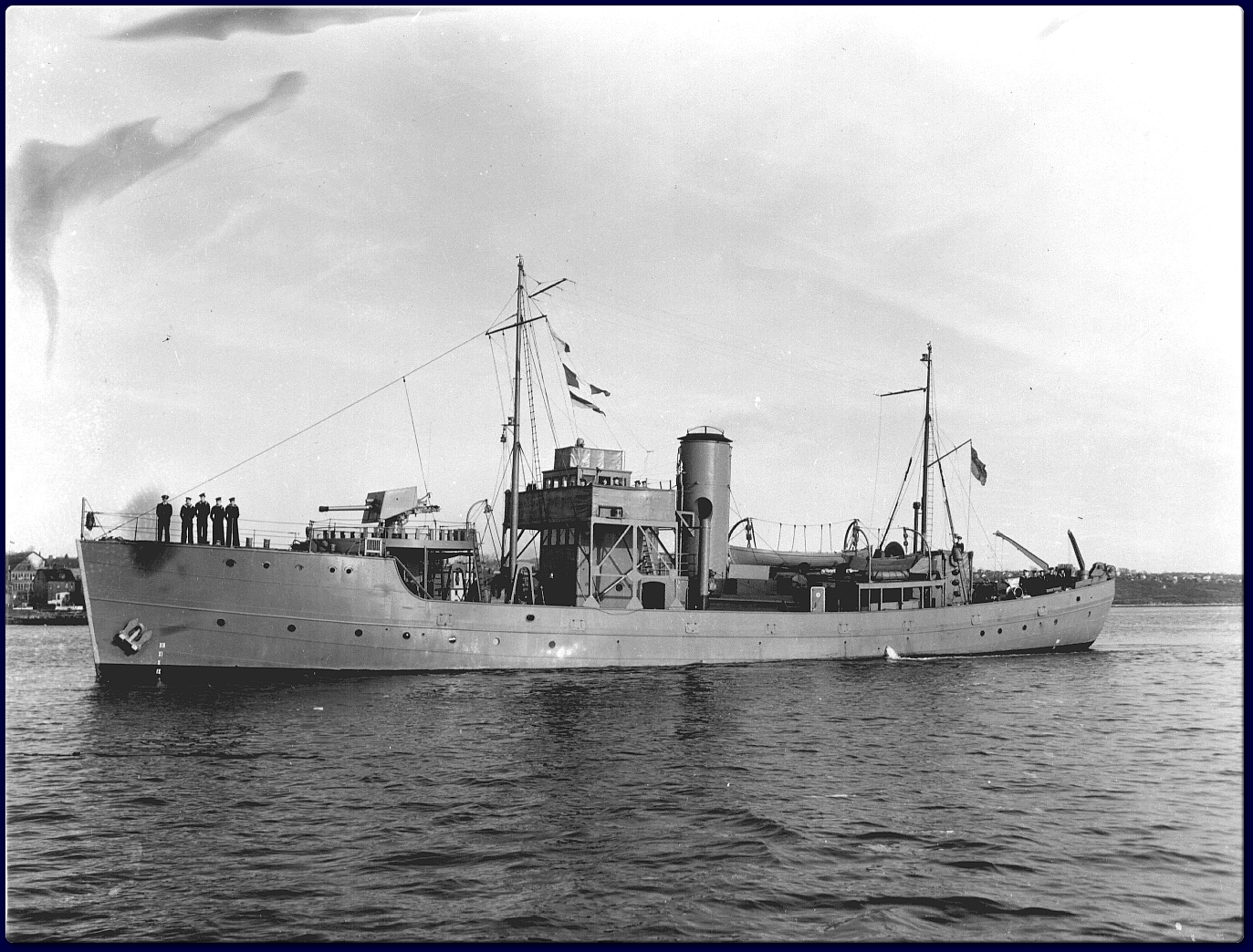 Photograph of Canadian minesweeper HMCS Gaspe (J94).